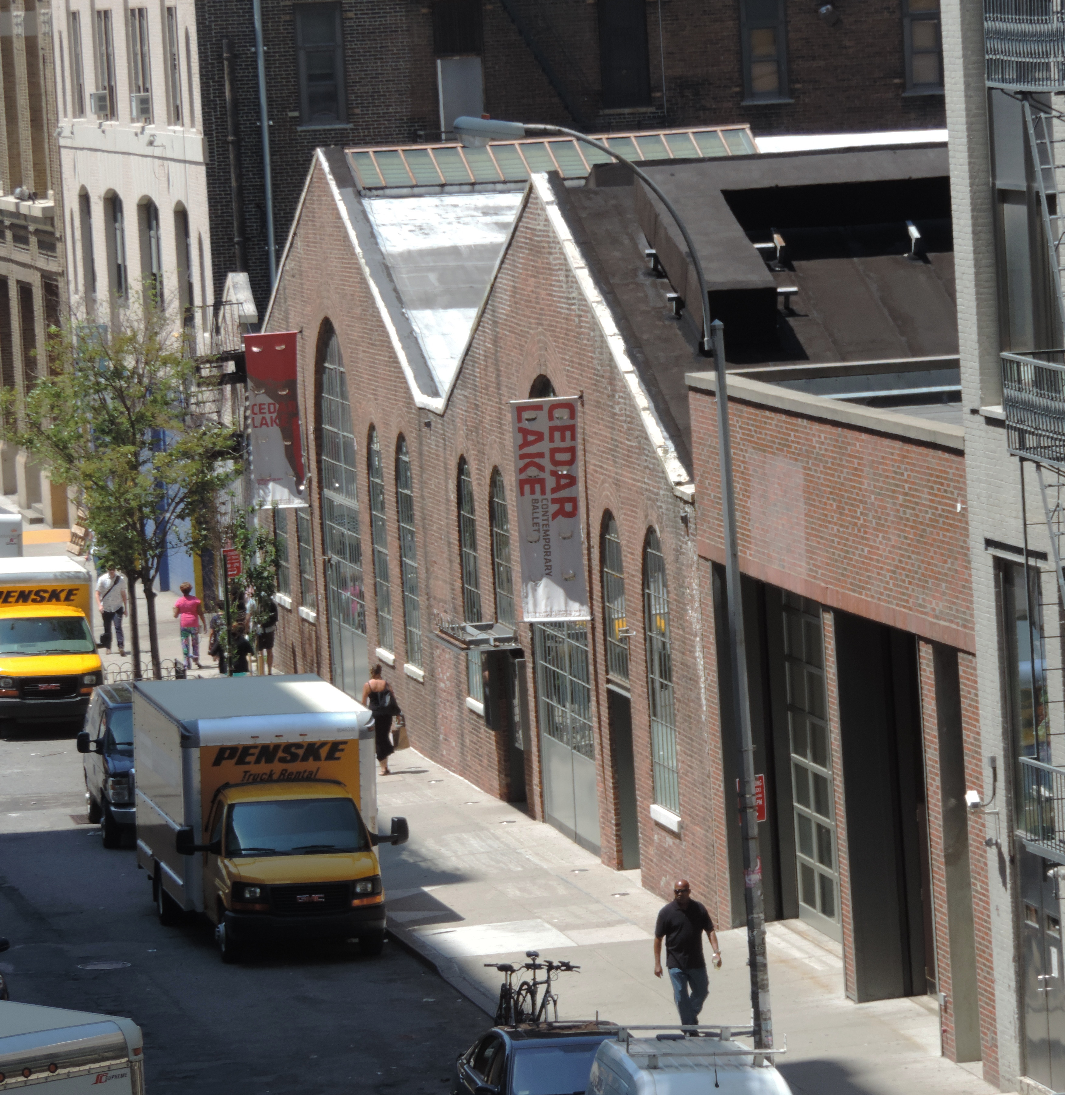 Looking northwest, zoomed, along 26th Street from High Line at Cedar Lake Ballet on a sunny midday.